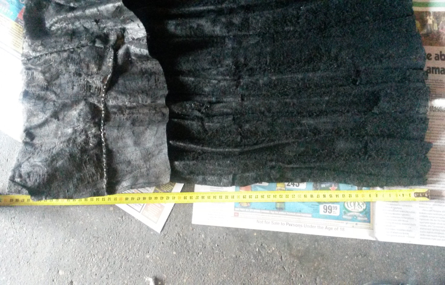 This is a full length photo of the Nazareth Baptist Church version of the Isidwaba skirt, dyed in black.